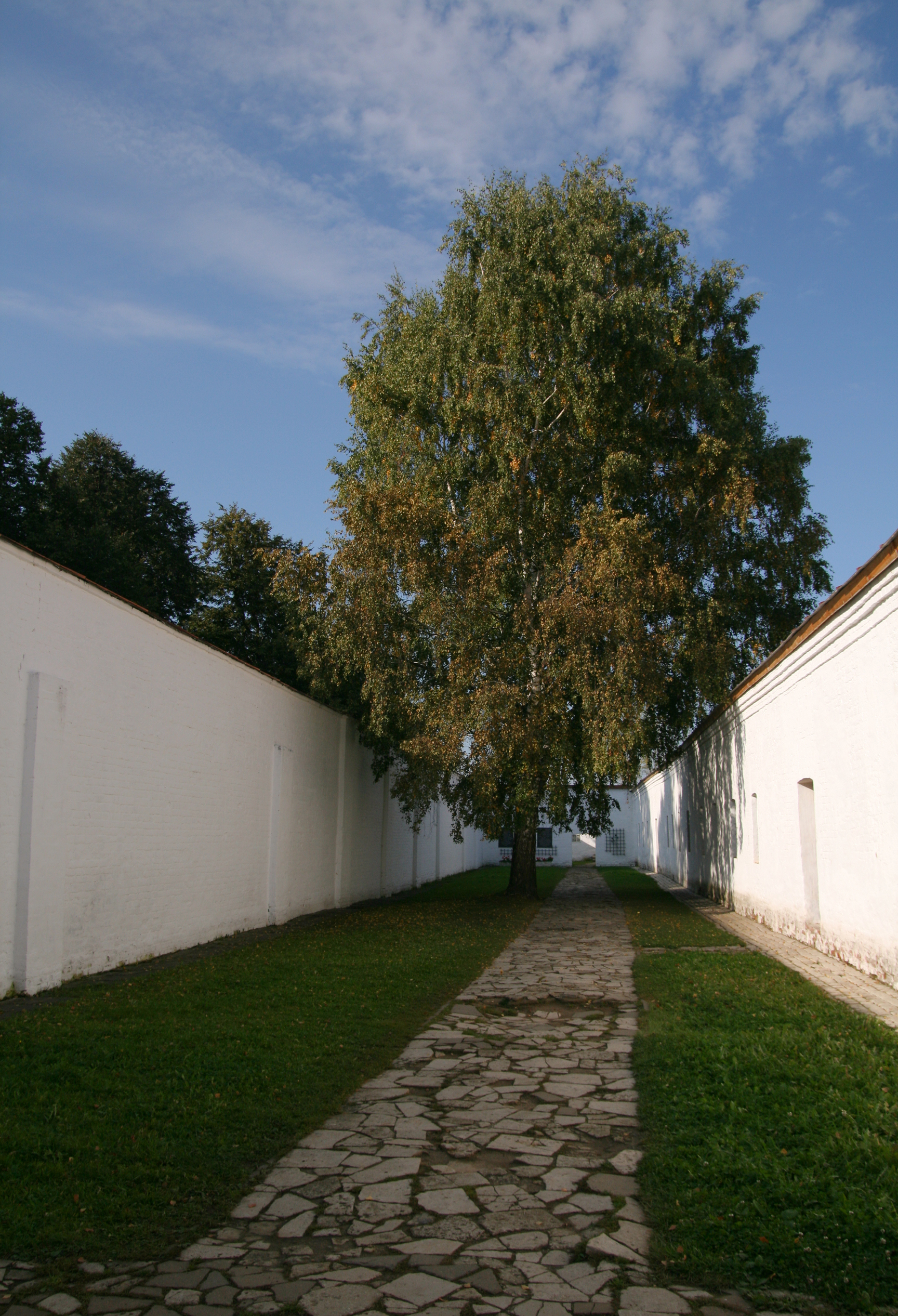 Prison Court of Spaso-Yevfimiyev Monastery, Suzdal